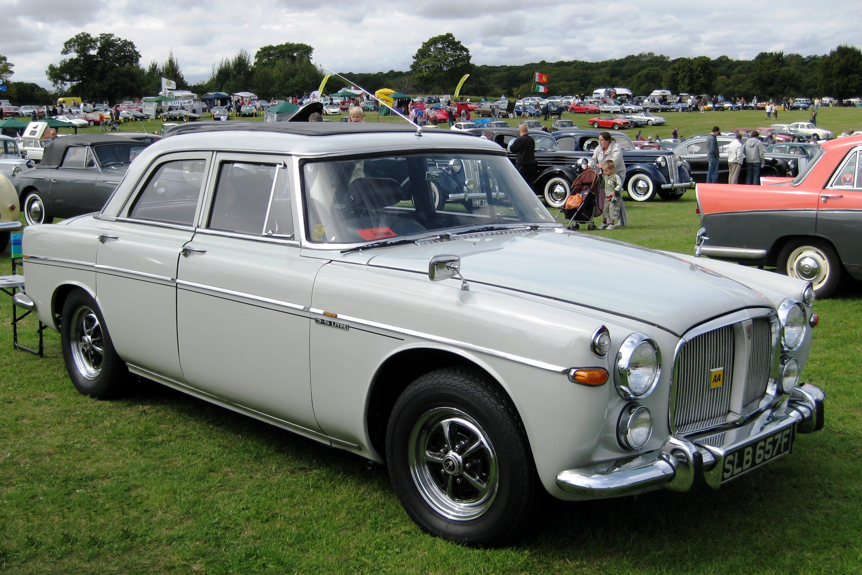 Rover 3.5 aka Rover P5